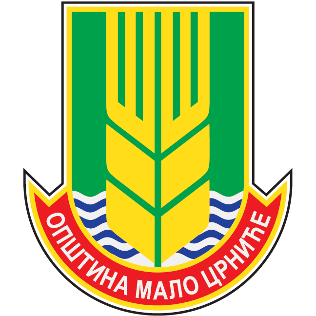 Coat of arms of Malo Crniće